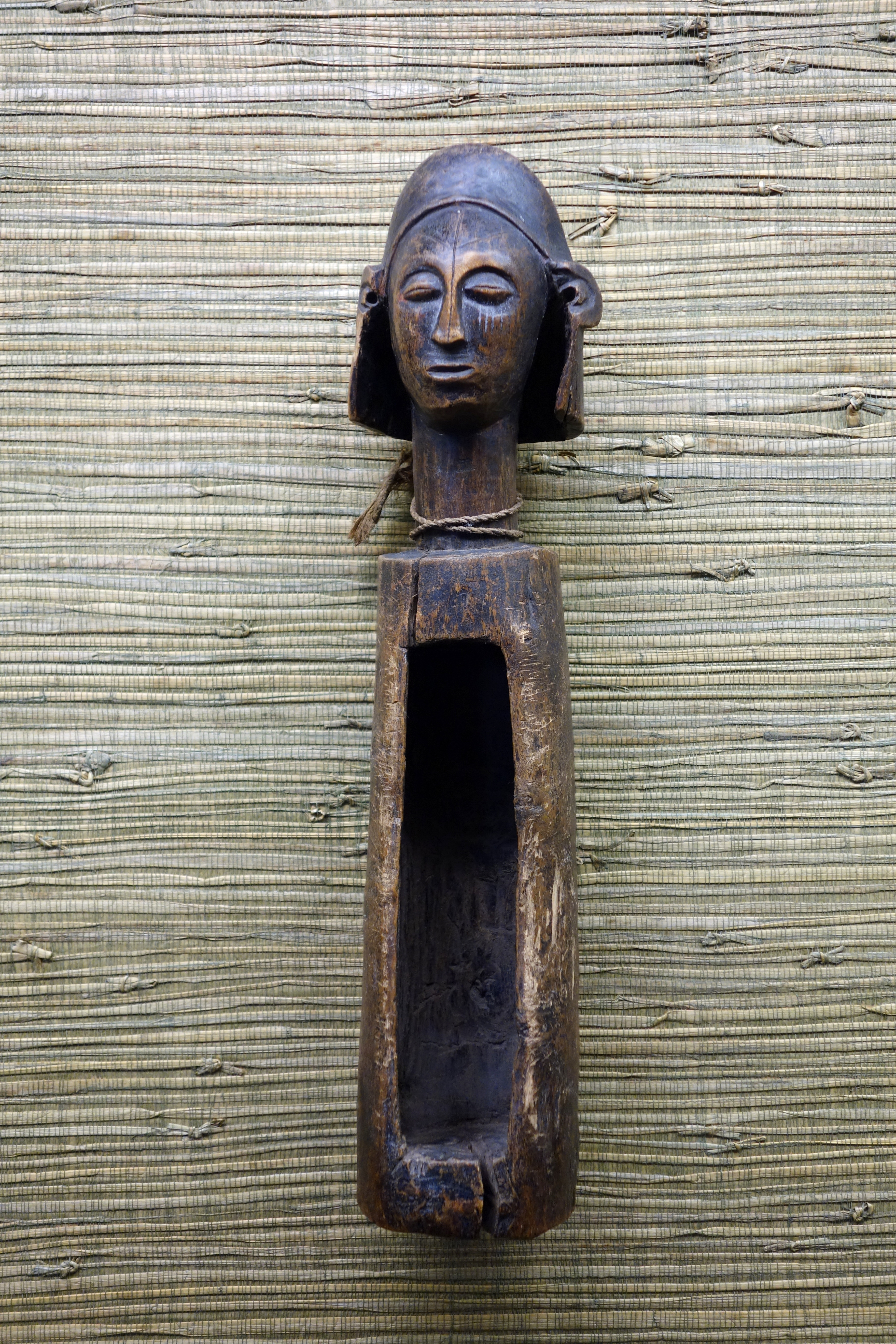 Exhibit in the Royal Museum for Central Africa, Tervuren, Belgium. This object is old enough so that it is in the public domain.